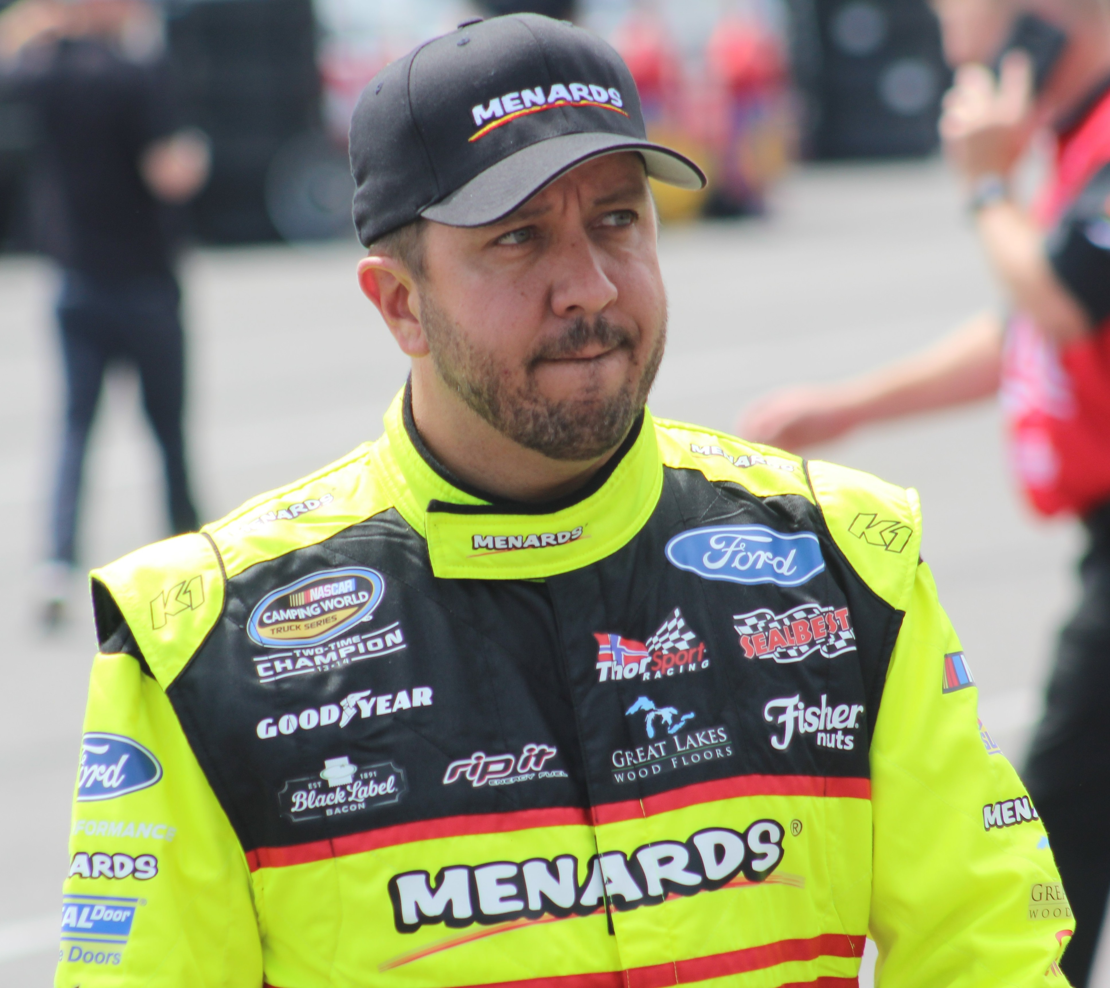 Matt Crafton at Pocono Raceway in 2018